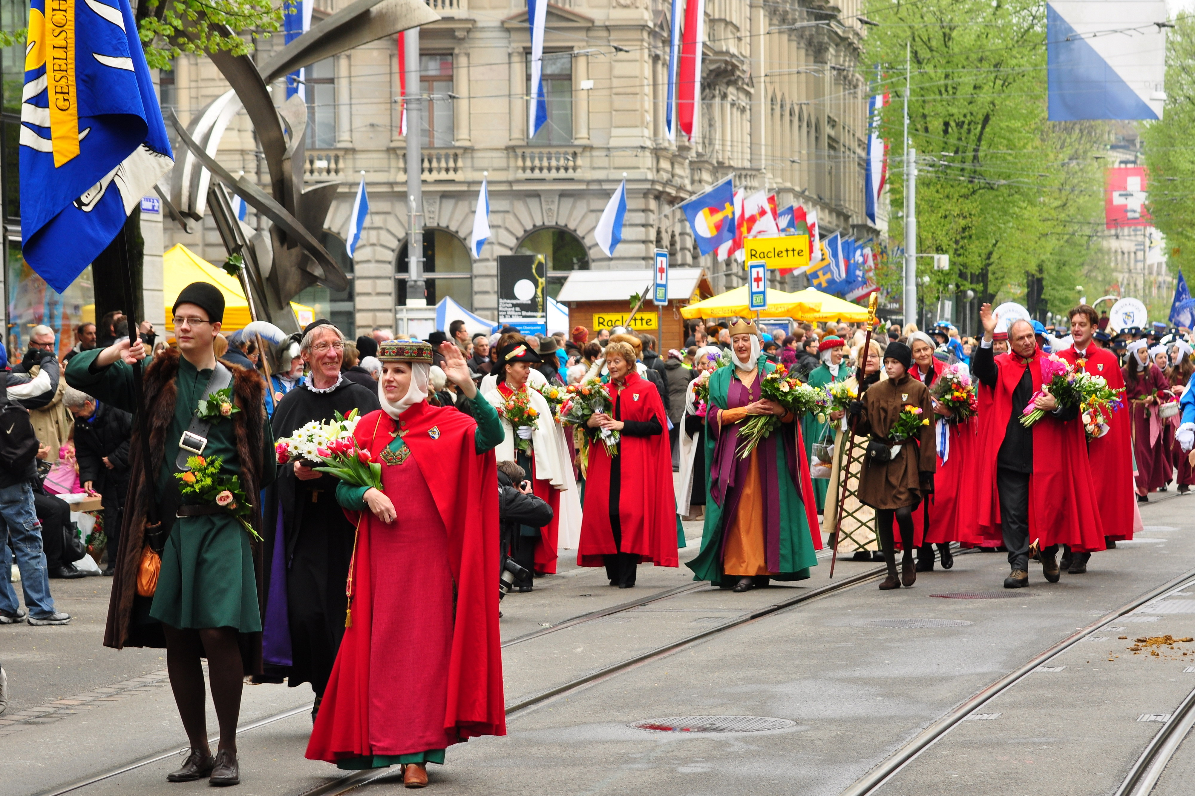 Ladies of the honorable Gesellschaft zu Fraumünster (Fraumünster society respectively guild) and Eveline Widmer-Schlumpf, President of the Swiss Confederation, being (unwanted) 'guests' at the parade of the Zünfte (guilds), Bahnhofstrasse in Zürich (Switzerland) on Sechseläuten-Montag, April 16, 2012.